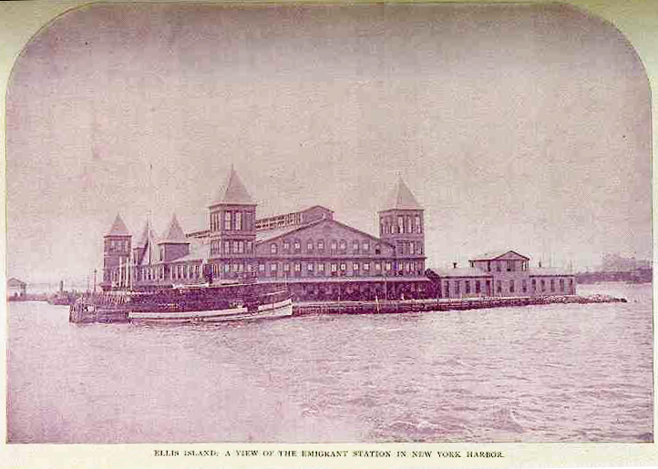 First Ellis Island Immigration Station in New York Harbor. Opened January 2, 1892. Completely destroyed by fire on 15 June 1897.